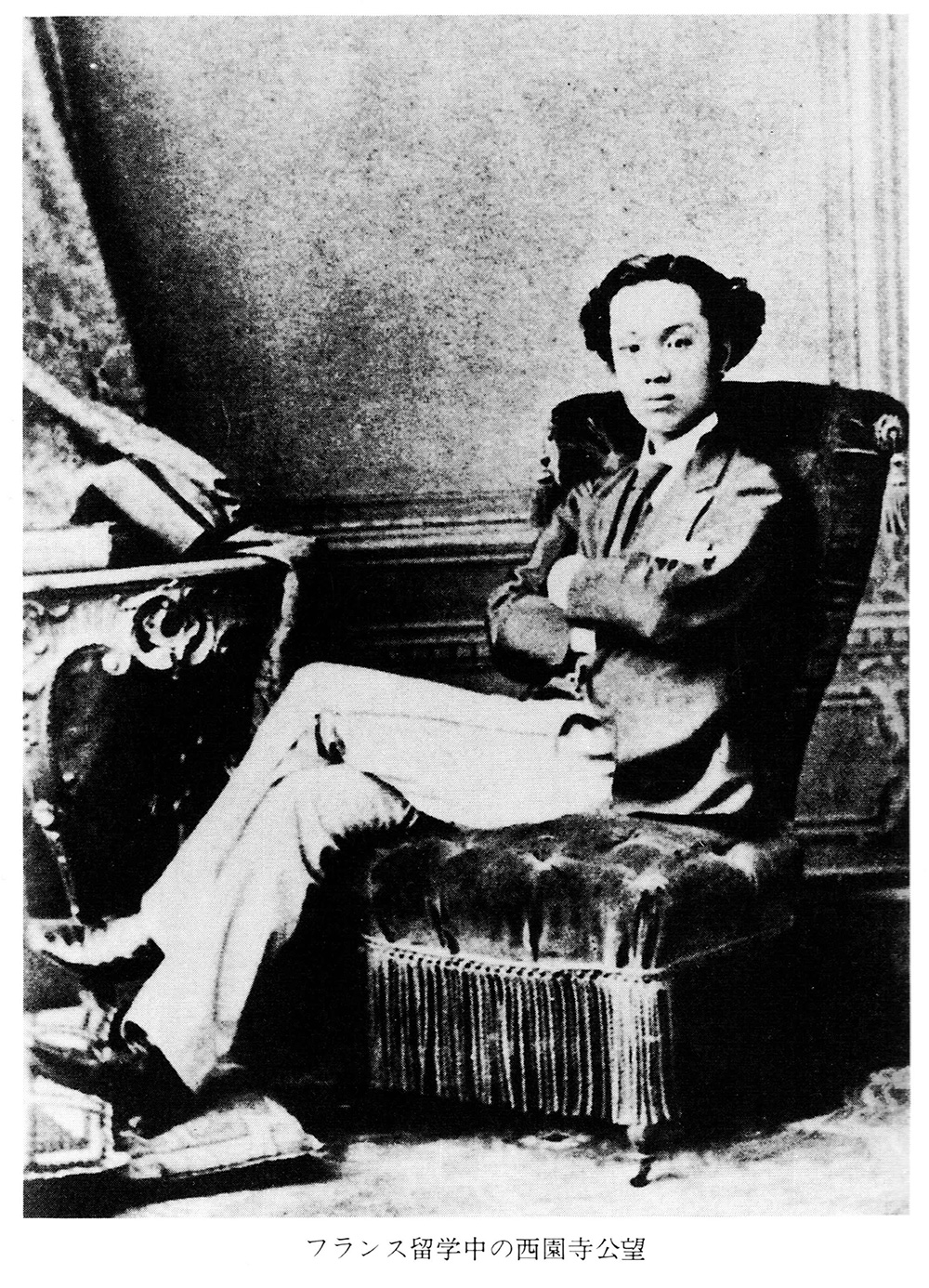 Young Kinmochi Saionji (西園寺公望, 1849-1940) studying in Paris.